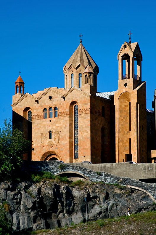 St. Sarqis Ch., Armenia